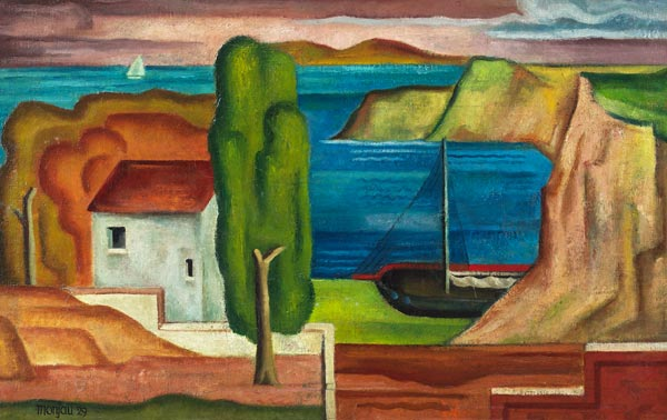 Southern Landscape